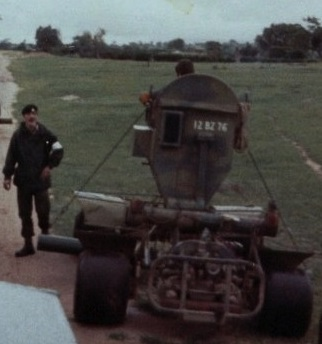 Two Rhodesian Pookie mine detection vehicles in operation.